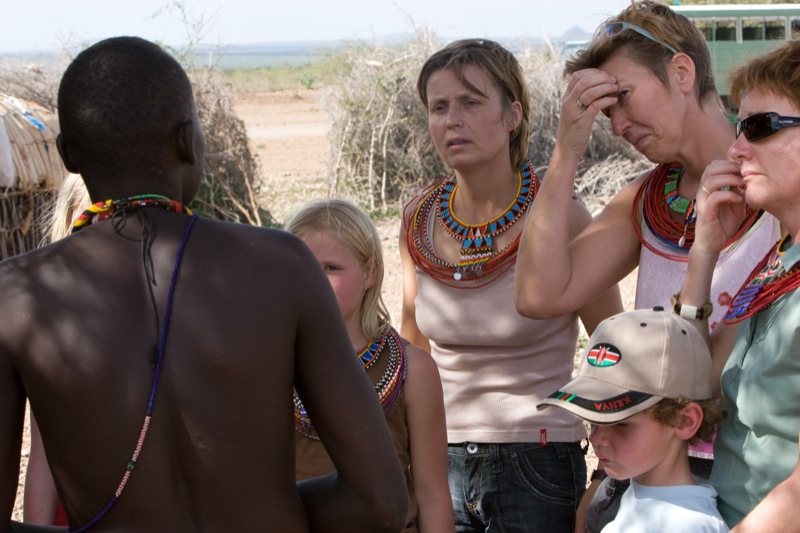 Tourists and guide at Shaba National Reserve, Kenya